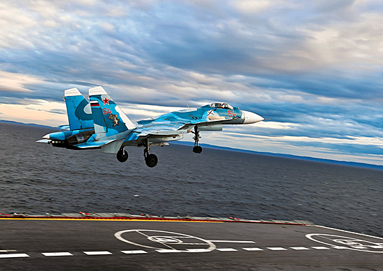 The 279th separate naval fighter regiment (Murmansk Region)